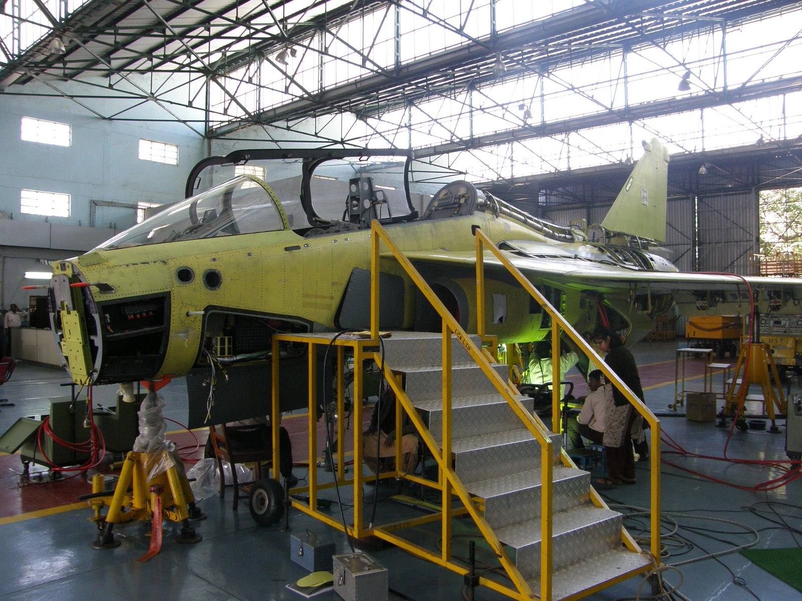 The first HAL Tejas twin-seater trainer version prototype under construction at HAL, Bangalore. This aircraft was about to be taken for structural coupling test, in which various sensors are excited and the aircraft response evaluated.